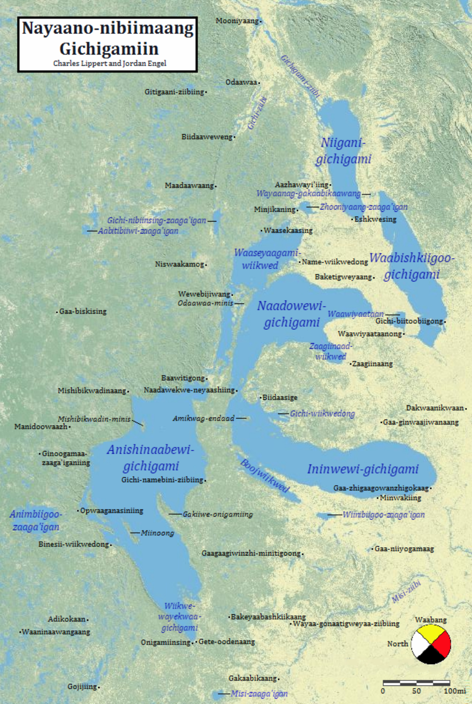 Nayaano-nibiimaang Gichigamiin means “The Five Freshwater Seas” in Anishinaabemowin. The cultural impact of the Anishinaabe on the region is everywhere, as evidenced by this map.